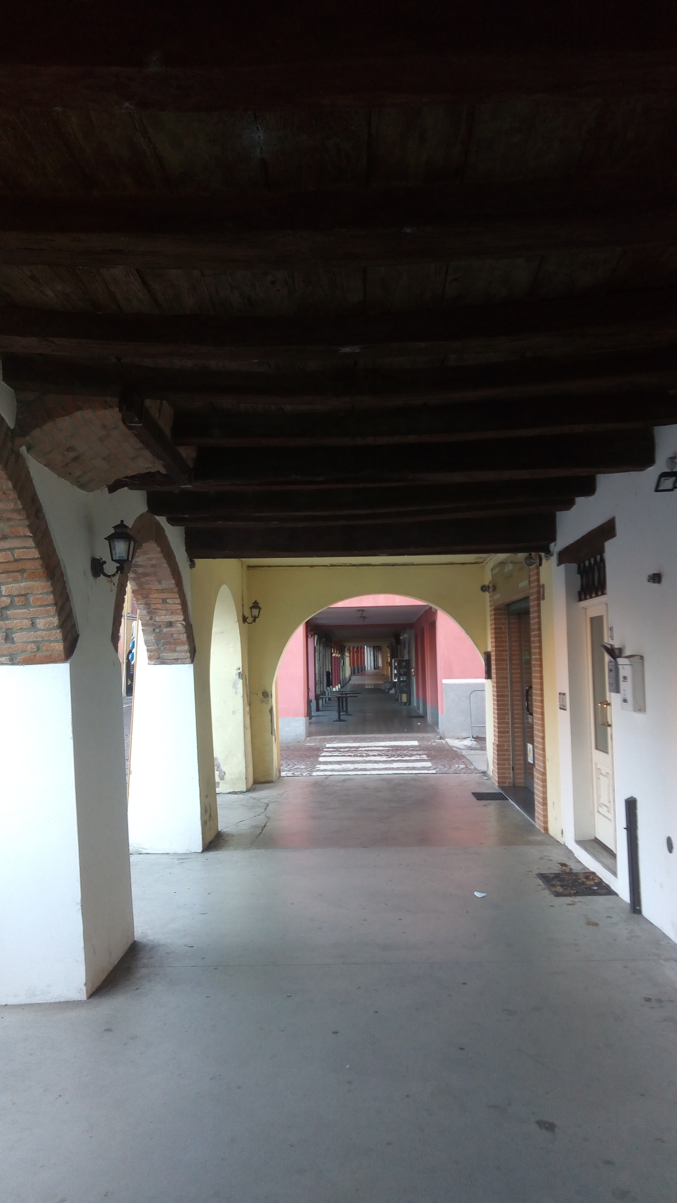 Saint Claire Monastry2